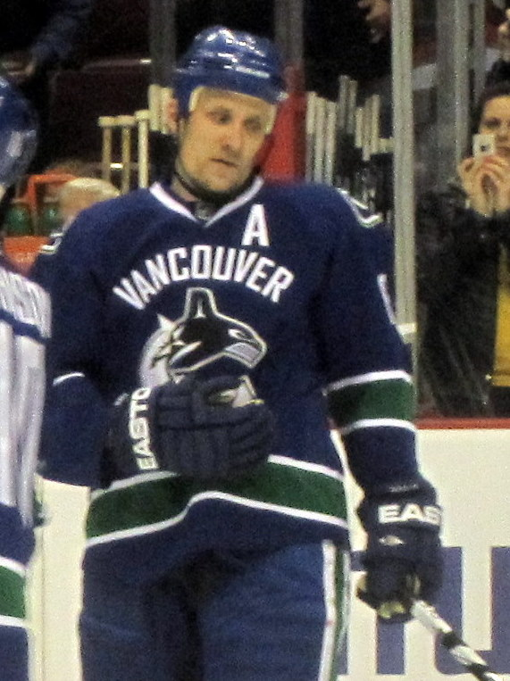 Vancouver Canucks defenceman Sami Salo during a game against the New York Islanders on March 16, 2010, in Vancouver.